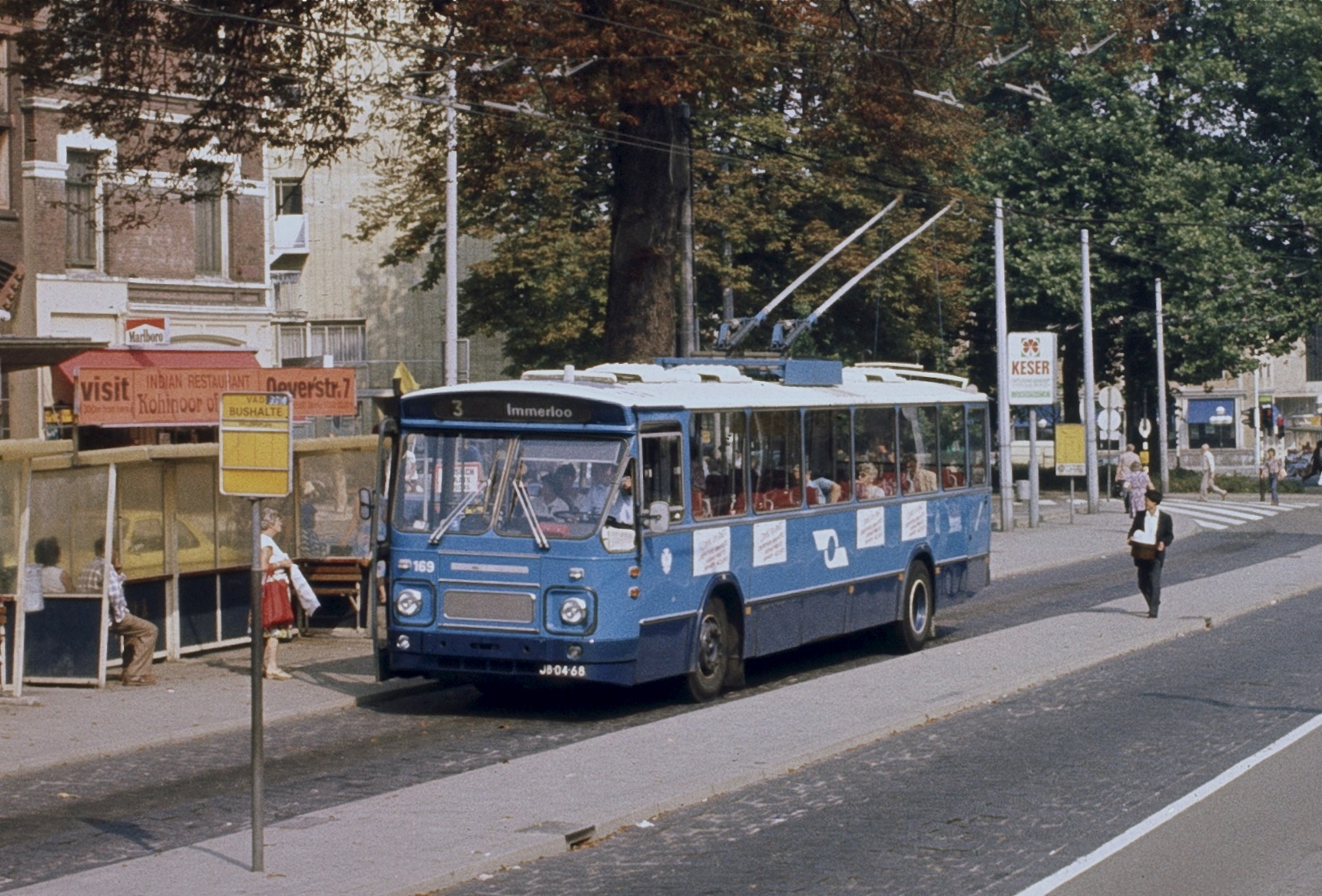 Arnhem trolleybus 169 at the westbound stop at Willemsplein, on a route 3 trip to Immerloo, in 1983. No. 169 was a 1974 DAF trolleybus assembled by Den Oudsten. It was renumbered 123 in 1986. Arnhem's last trolleybuses of this type were withdrawn from service in 1993.